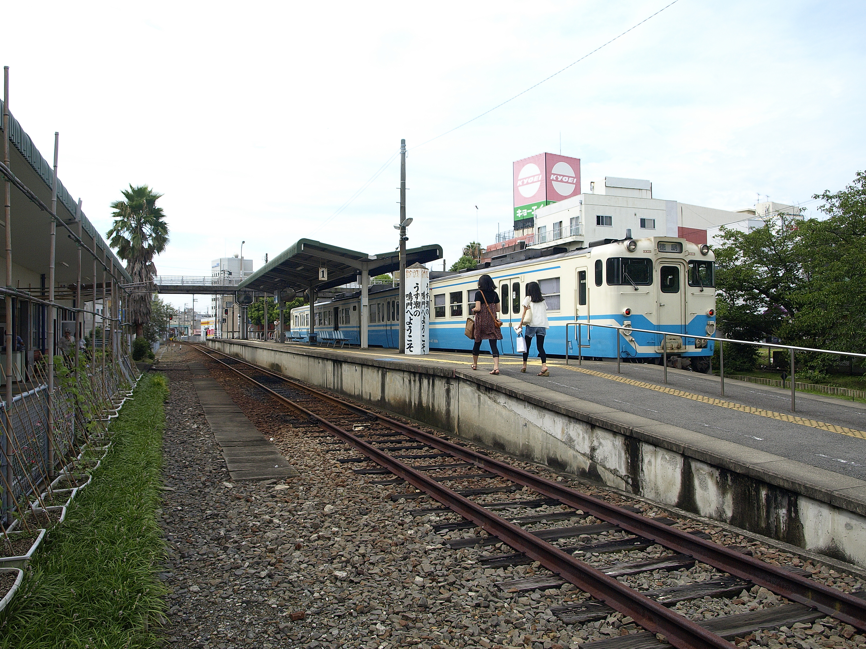 Naruto railway station platform, Tokushima, Japan.